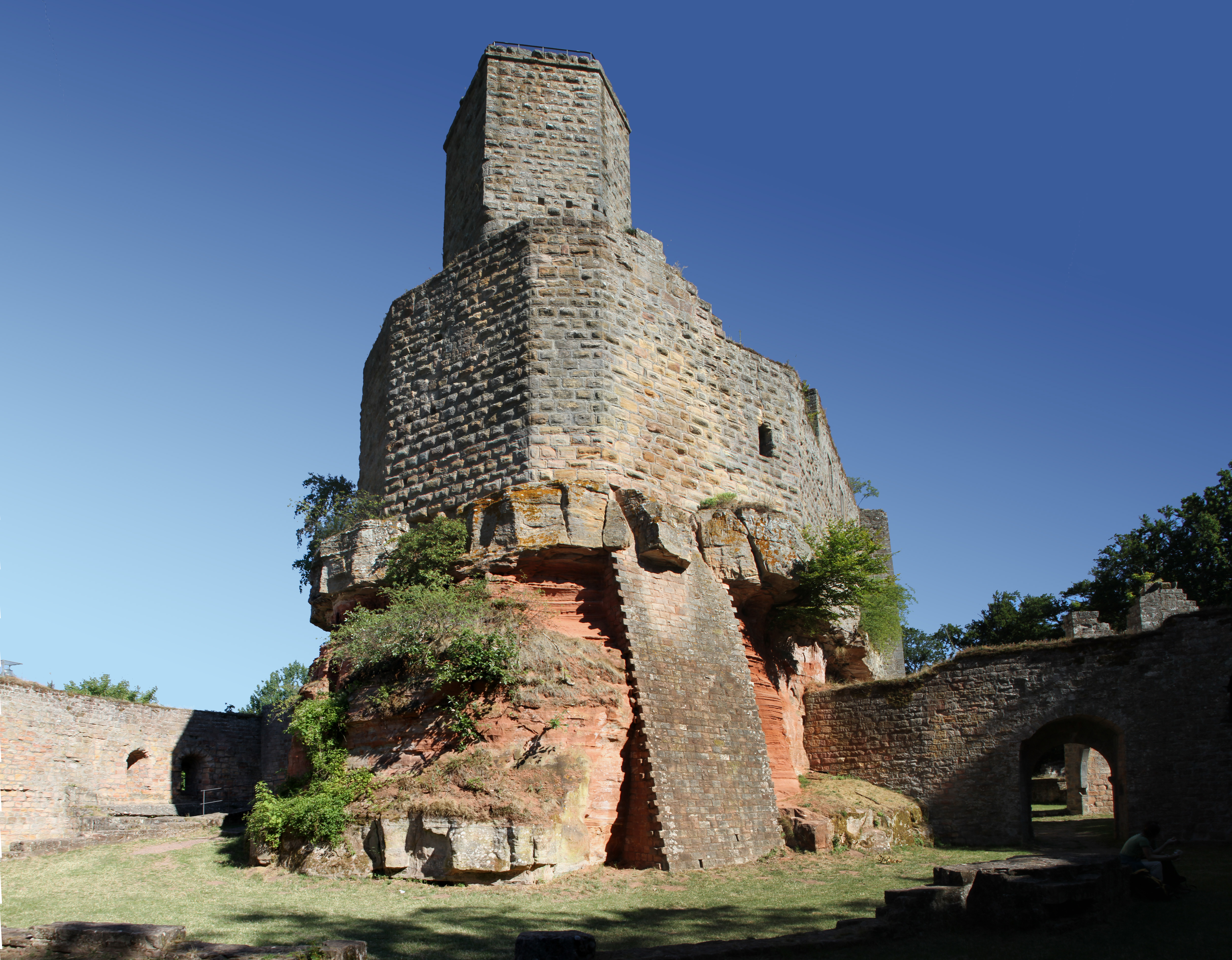 Gräfenstein Castle nearby Merzalben/Germany.